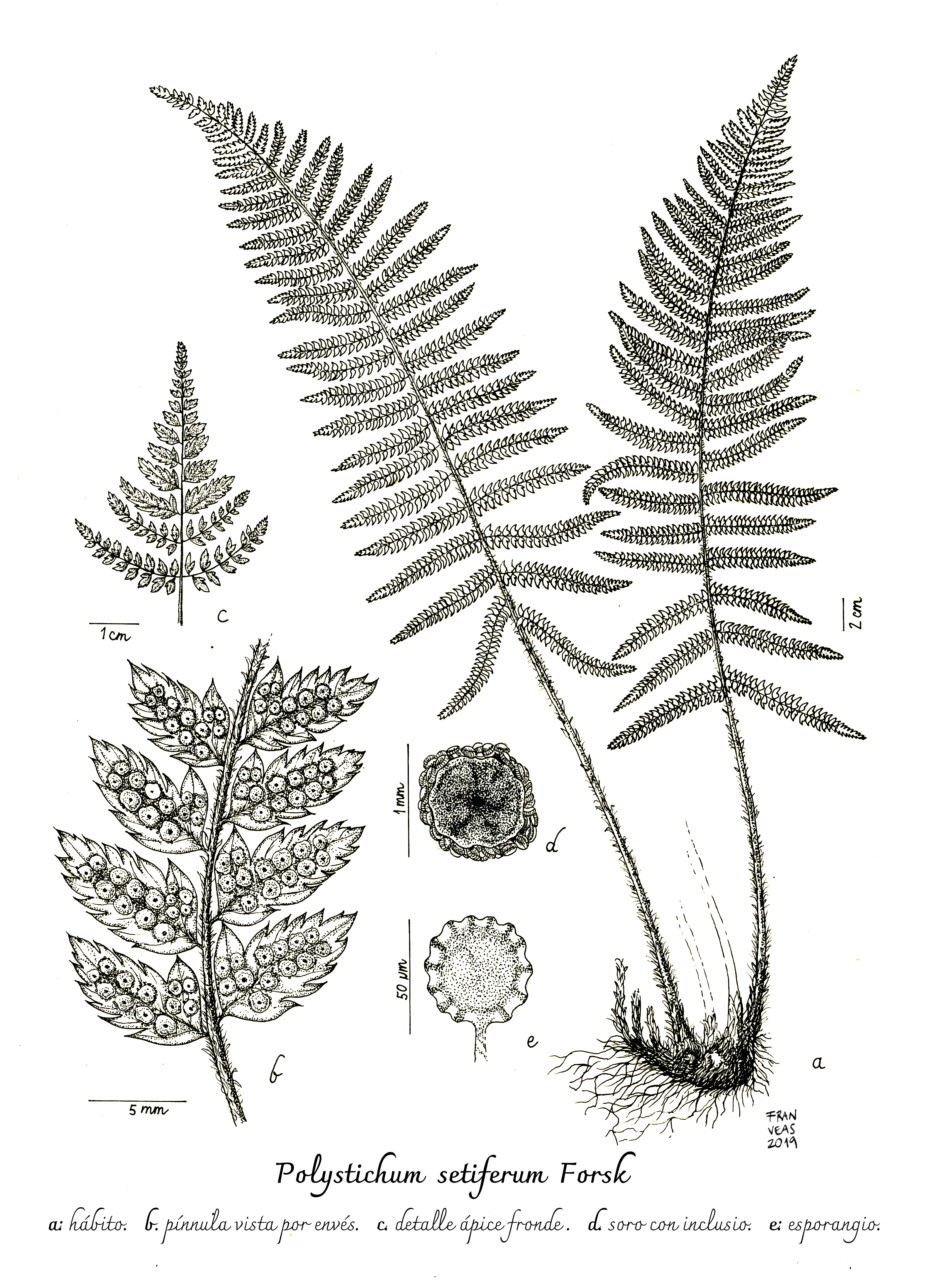 a. habit b. underside pínnula c. detail apex fronde d. soro with inclusio e. sporangium. Botanical illustration, pen and ink